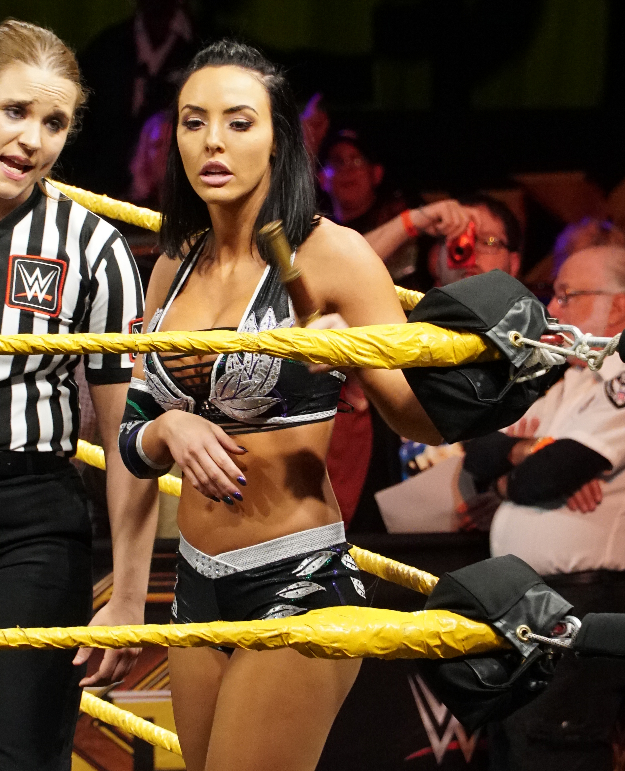 NOLA 2018 - WWE Axxess - Saturday - Peyton Royce Vs Kairi Sane